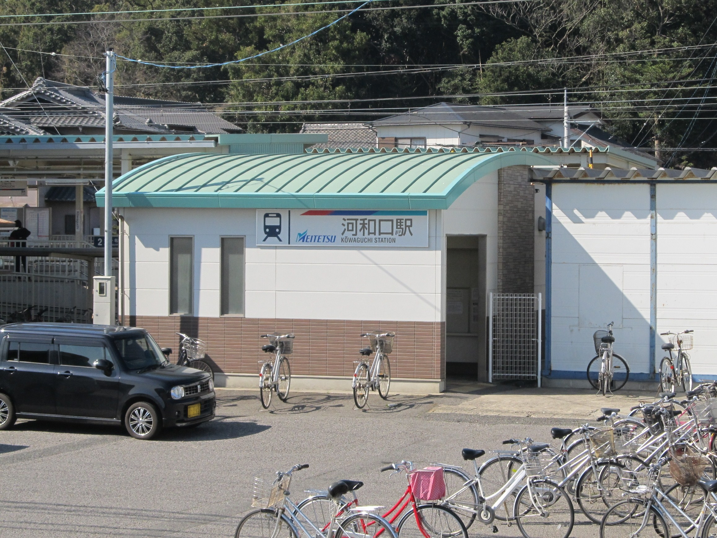 Nagoya Railroad Kowa Line Kōwaguchi Station Building